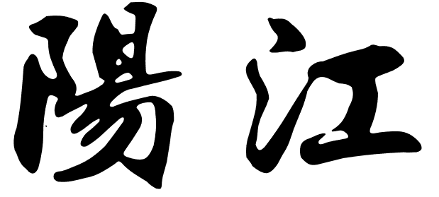 Yangjiang in Chinese